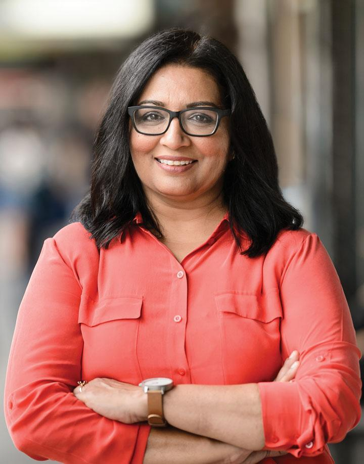 Portrait of Mehreen Faruqi, Australian Greens Senator for New South Wales